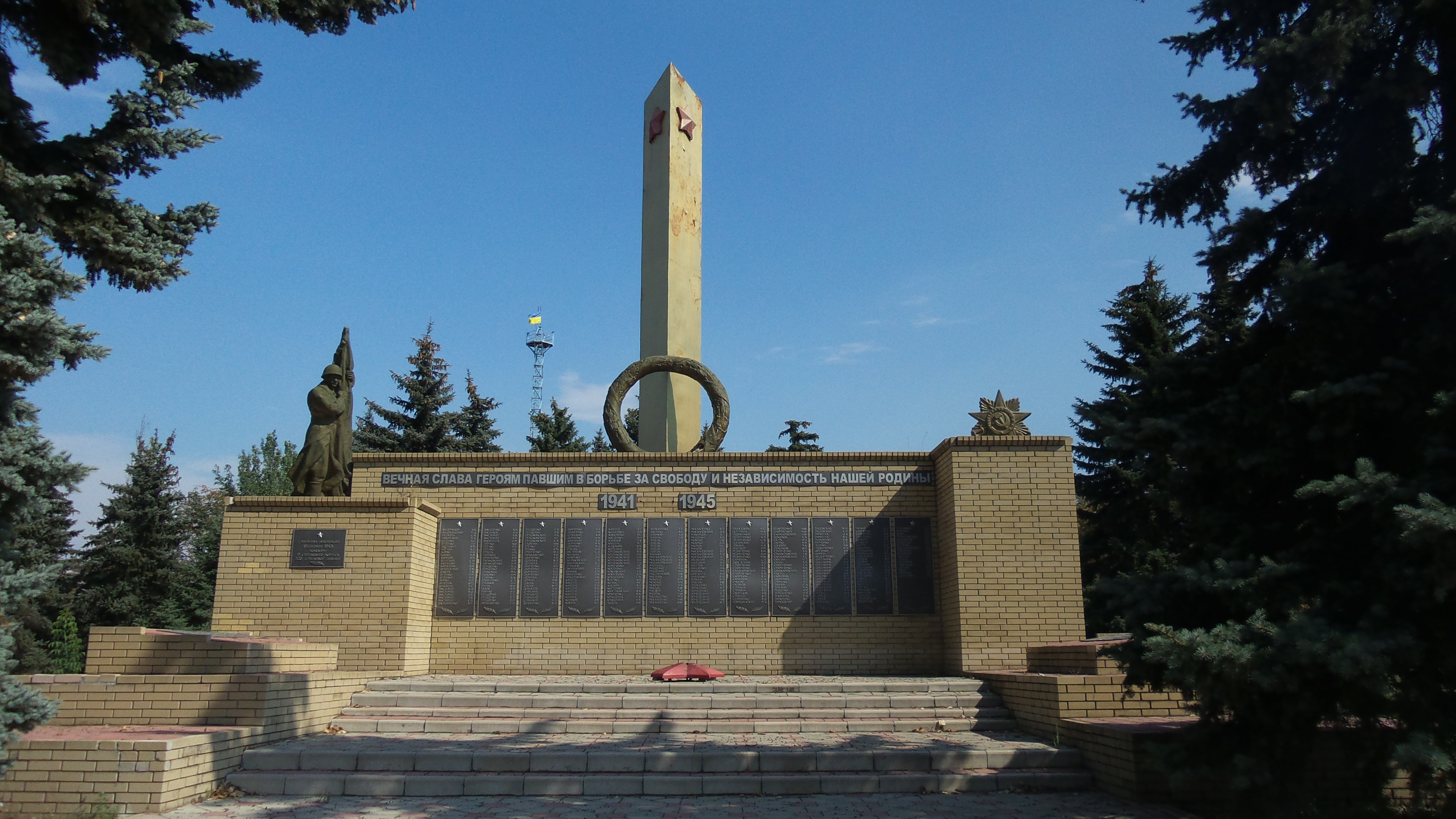 Maryinka, Donetsk region.